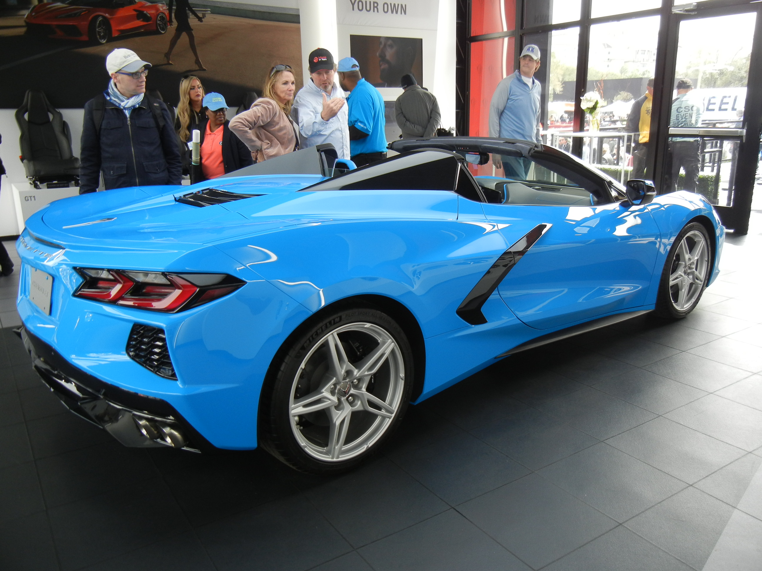 2020 corvette c8 convertible